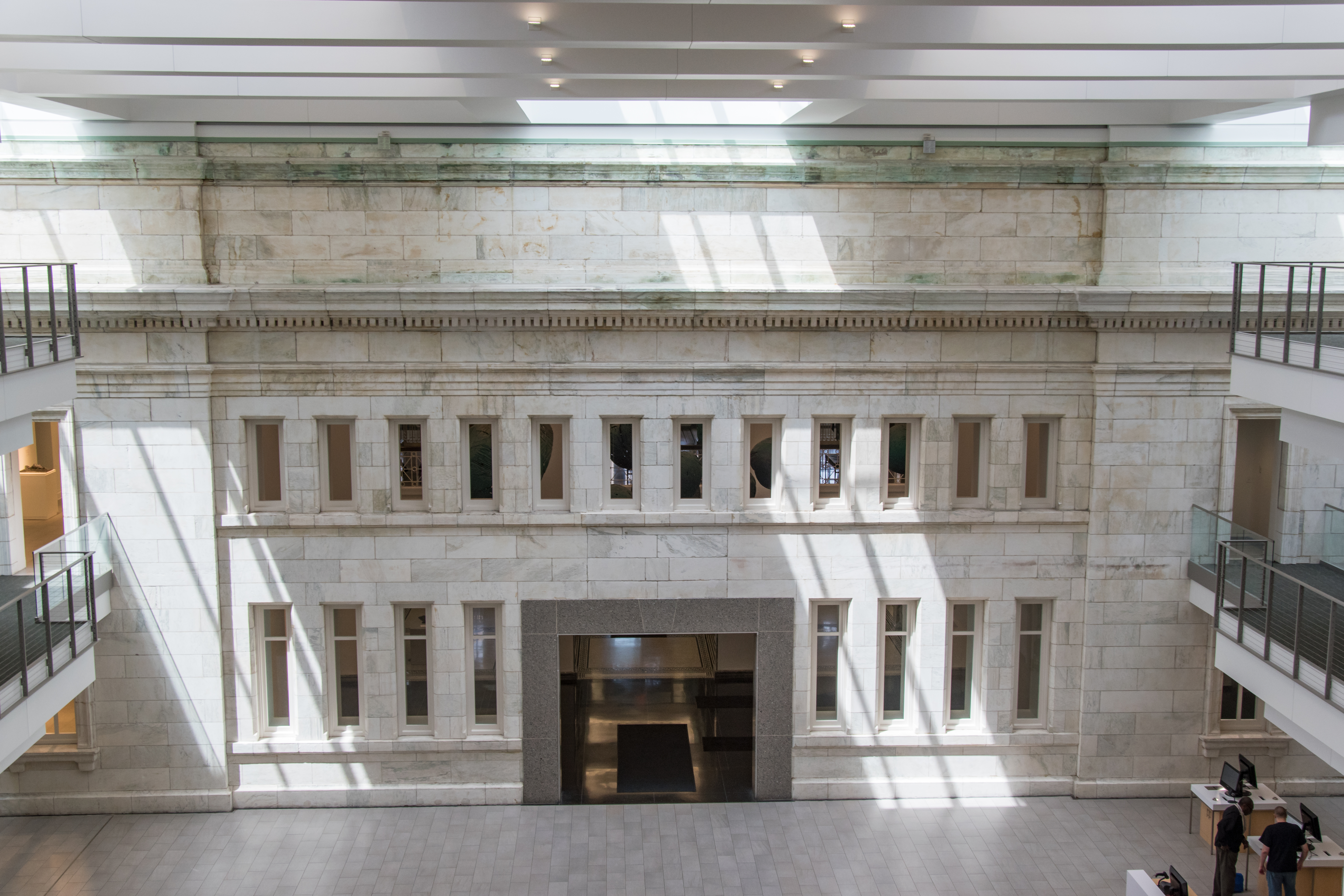 Columbus Library main branch.